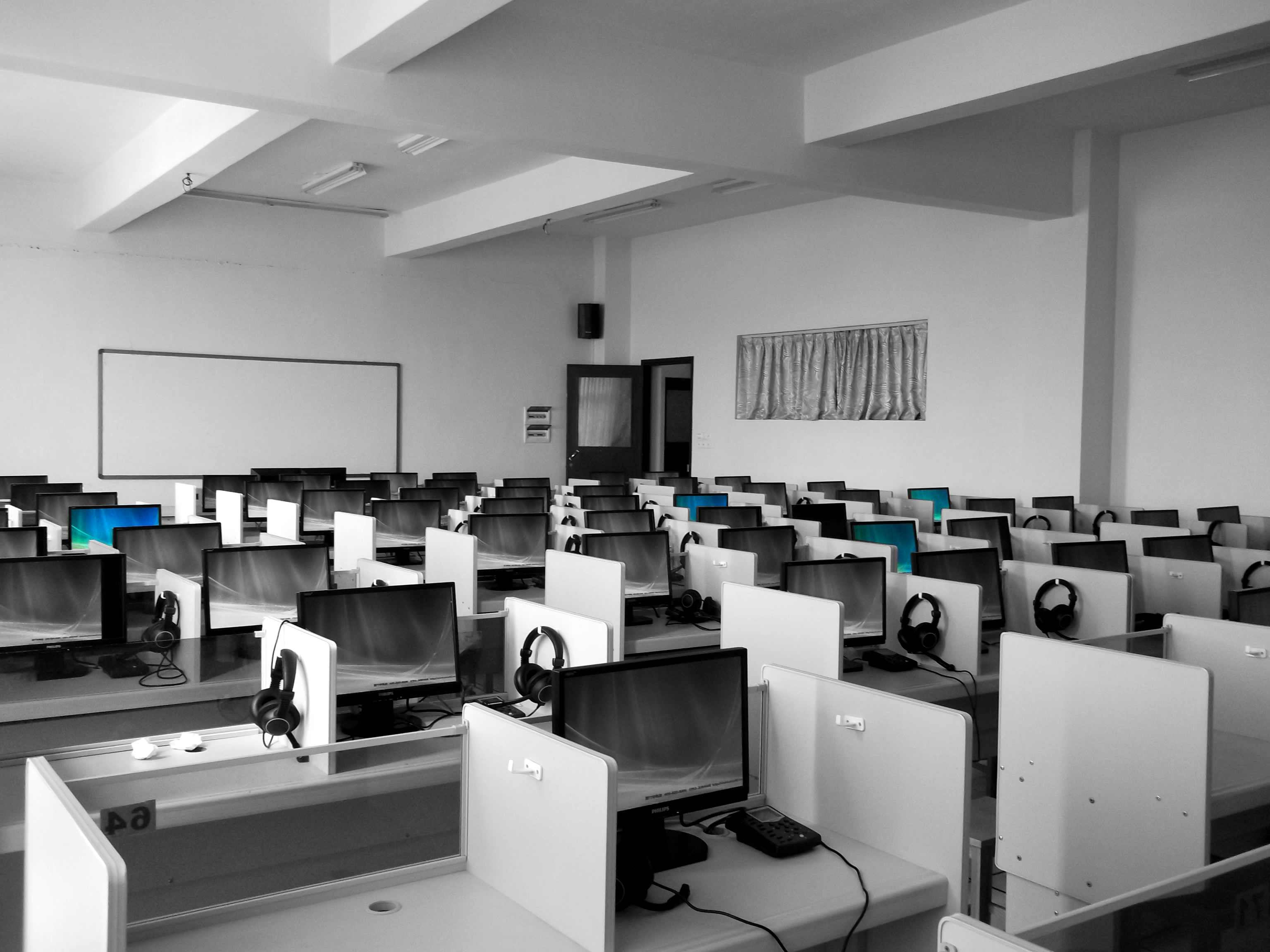 Taken in language laboratory, Huaihua College's western campus